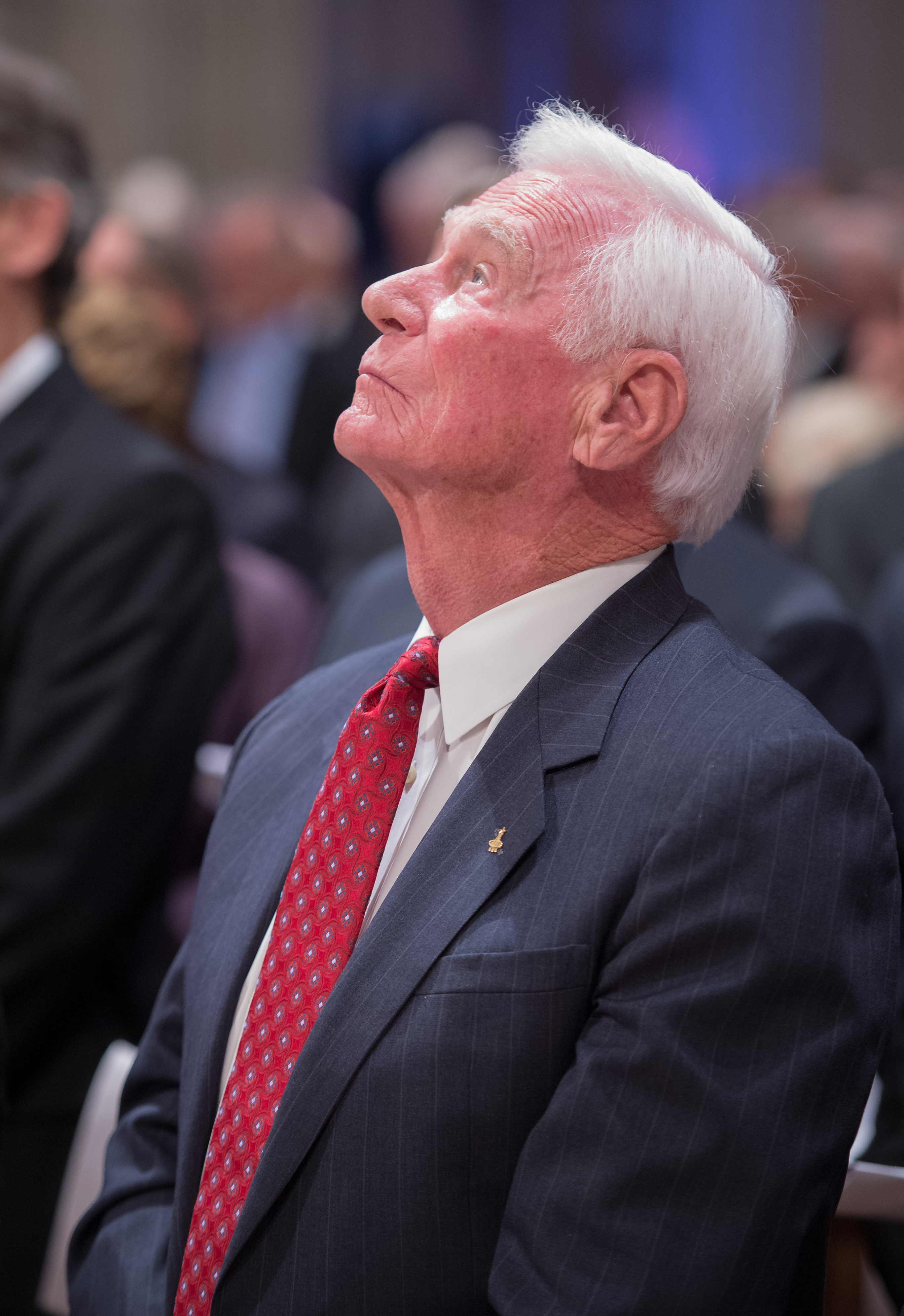 Apollo 17 mission commander Gene Cernan, the last man to walk on the moon, looks skyward during a memorial service celebrating the life of Neil Armstrong at the Washington National Cathedral, on Thursday, 13 September 2012. Armstrong, the first man to walk on the moon during the 1969 Apollo 11 mission, died on Saturday, 25 August. He was 82. Photo Credit: (NASA/Bill Ingalls)